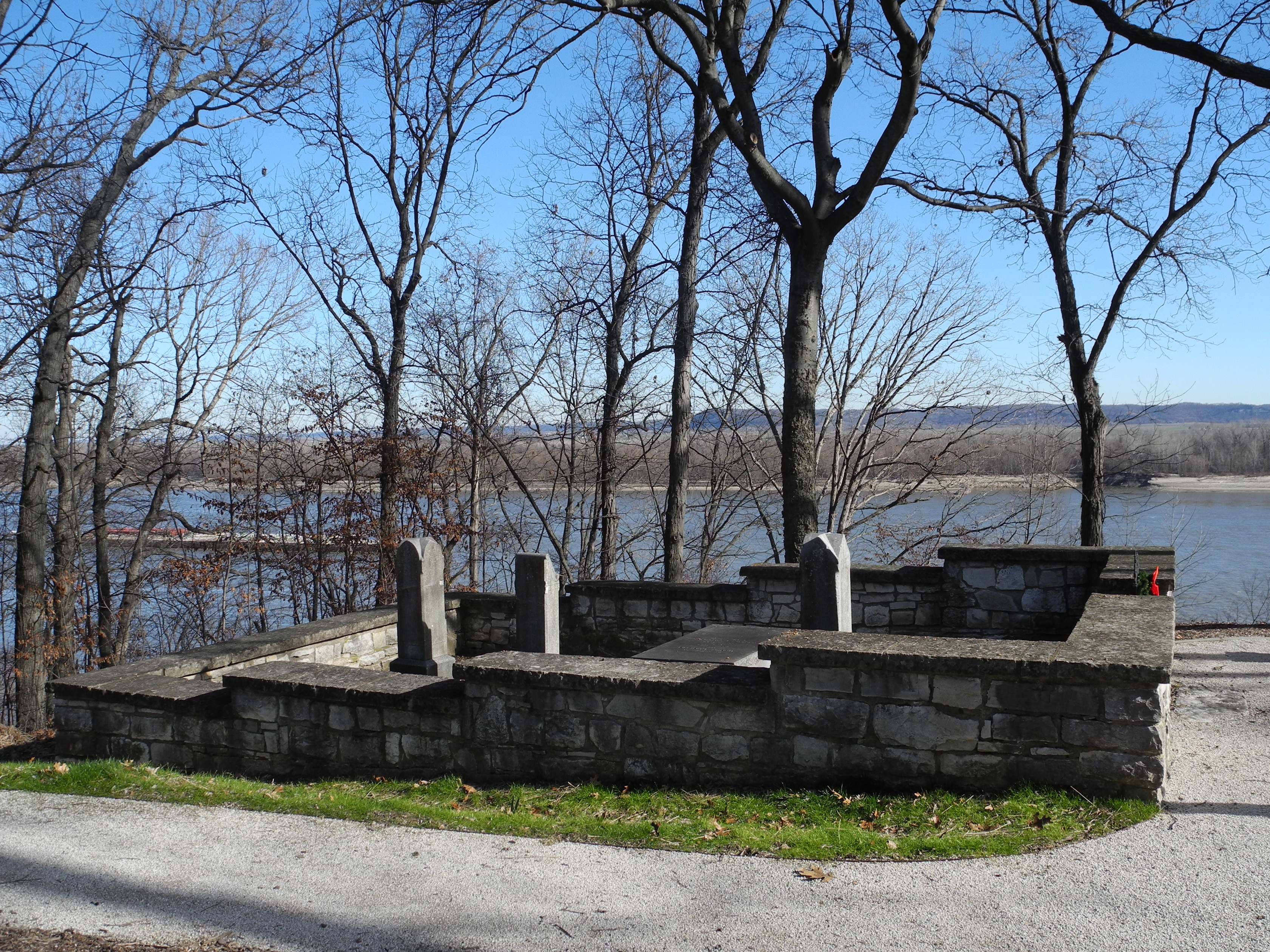 Gov. Daniel Dunklin's Grave State Historic Site in Herculaneum, Missouri, USA, on bluffs overlooking the Mississippi River. Dunklin was the fifth governor of Missouri.